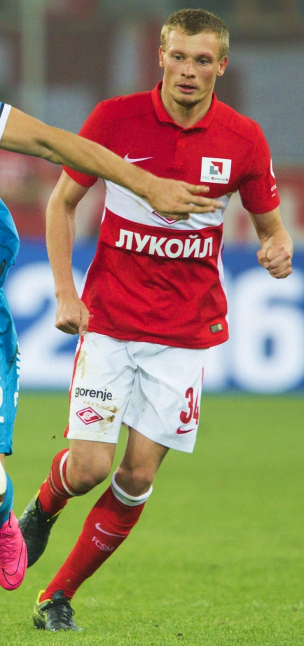 Yevgeny Makeev